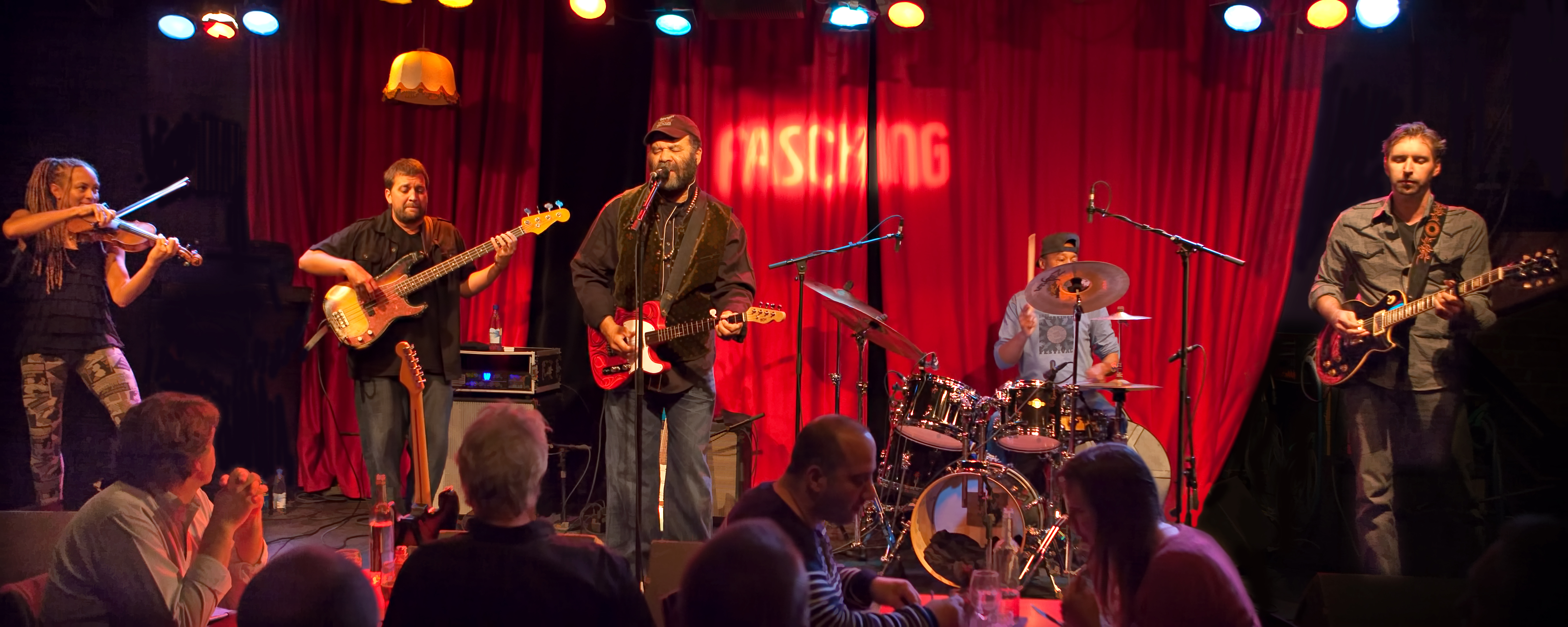 Anne Harris, Todd Edmunds, OTIS TAYLOR, Larry Thompson and Shawn Starski at Fasching, Stockholm June 2012